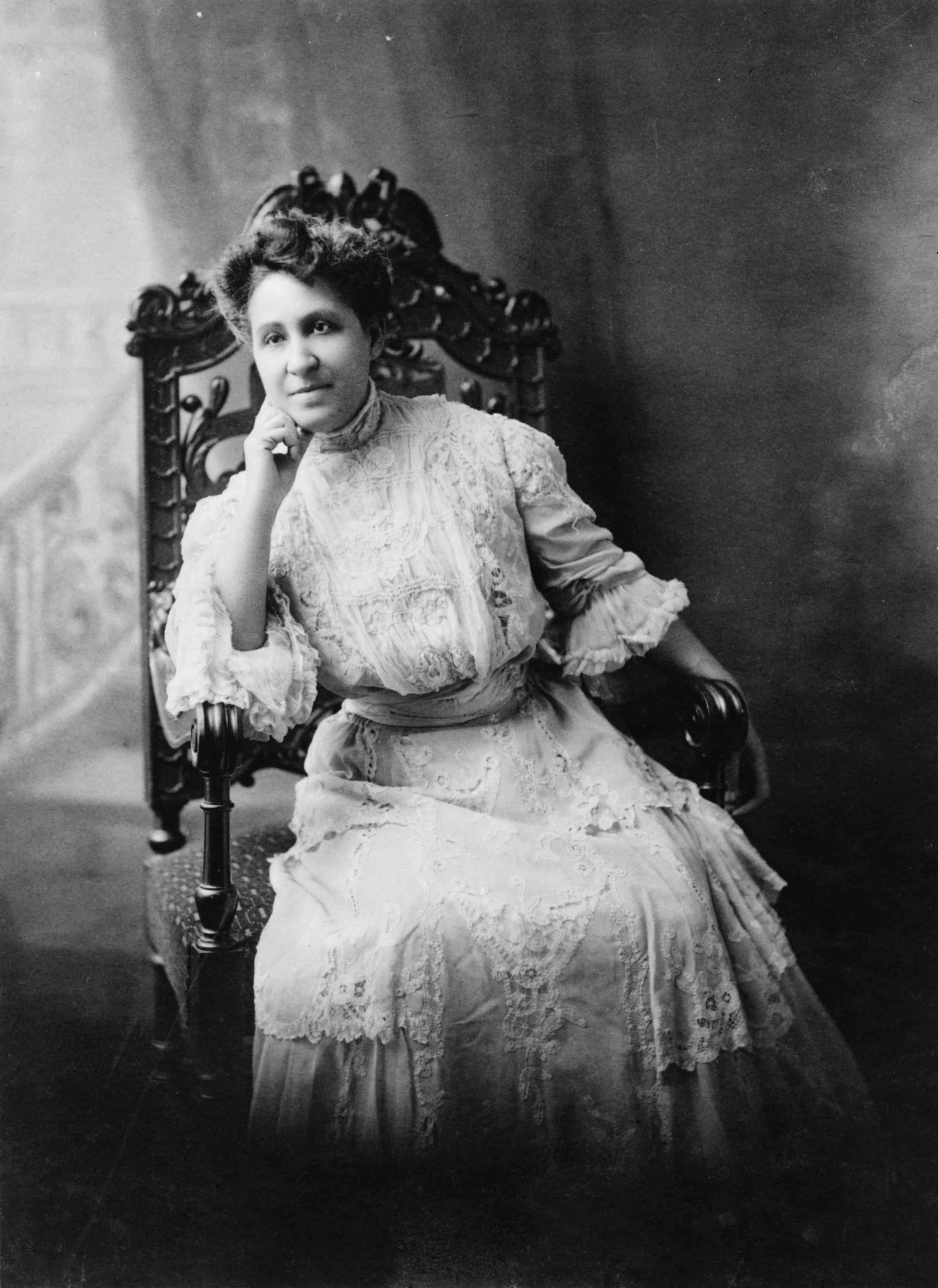 Mary Church Terrell